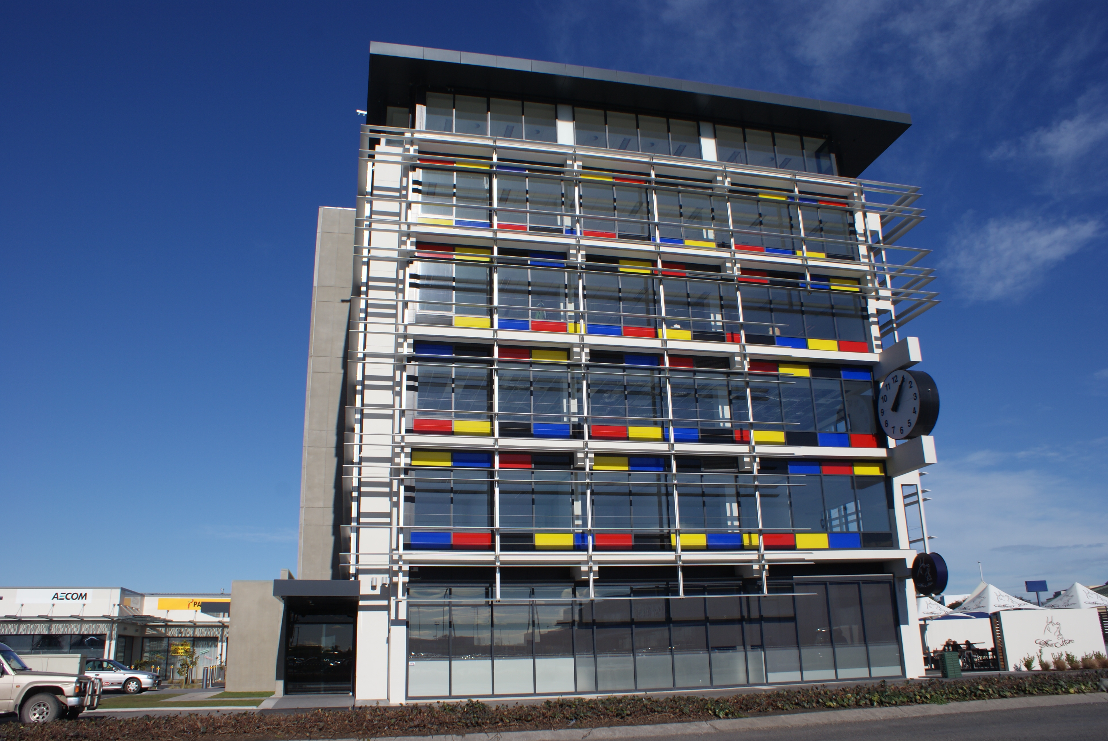 This was a new renovated building in Hornby, Christchurch New Zealand, called the Clock Tower.